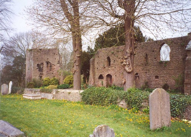 Part of Tiverton Castle, Tiverton Seen from the churchyard. Although much of the castle, including the Gatehouse and south-eastern tower, has been restored, the south-western tower (on the left) and a length of wall are a picturesque ruin.